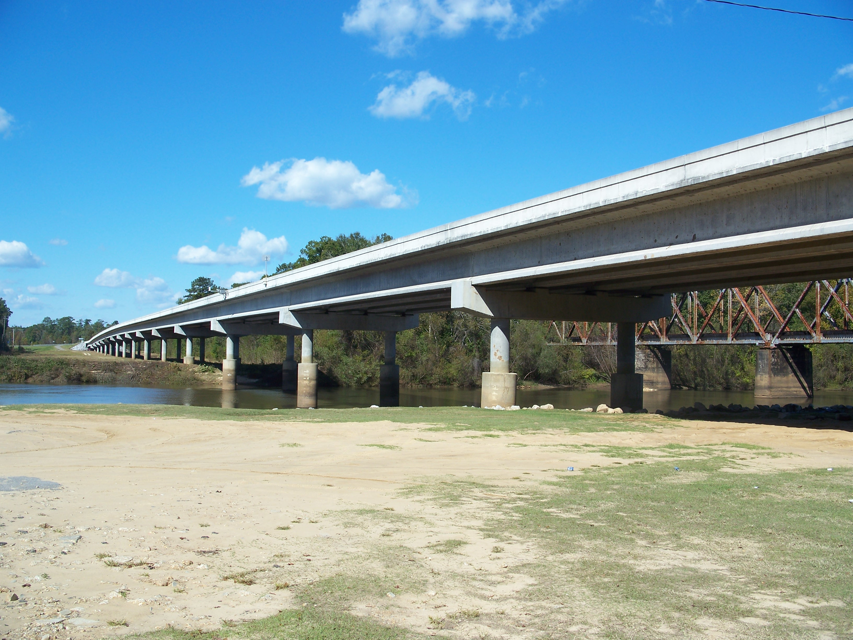 George L. Dickenson Bridge, which carries US 90 over the Choctawhatchee River, between Caryville, Florida and Westville, Florida